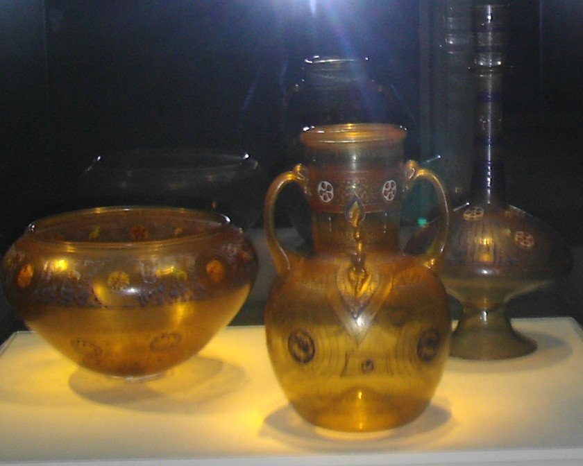 A set of three Mamluk era Syrian-blown glassware vessels from the 14th century, complete with enamel and gilding decorations and calligraphic writing. The central four-handled vase shown has a formidable international history: it was crafted sometime between 1325 to 1350 for the presiding sultan of the Rasulid Dynasty in Yemen, which ruled southern Arabia from 1229 to 1454. This particular vase created in Syria under the Mamluks was aimed to please the Rasulids, as it displays the characteristic five-petal rosettes associated with the Rasulids. The Rasulids Dynasty was a seapower in the Indian Ocean, largelly controlling sailed routes from East Asia to Africa. With contacts in East Asia, this vase eventually wound up in China, either arriving as a gift or brought back by a Chinese envoy visiting Yemen. From the Freer and Sackler Galleries of Washington D.C. Author: User:PericlesofAthens Date: August 3, 2007